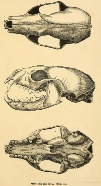 Pine marten skull